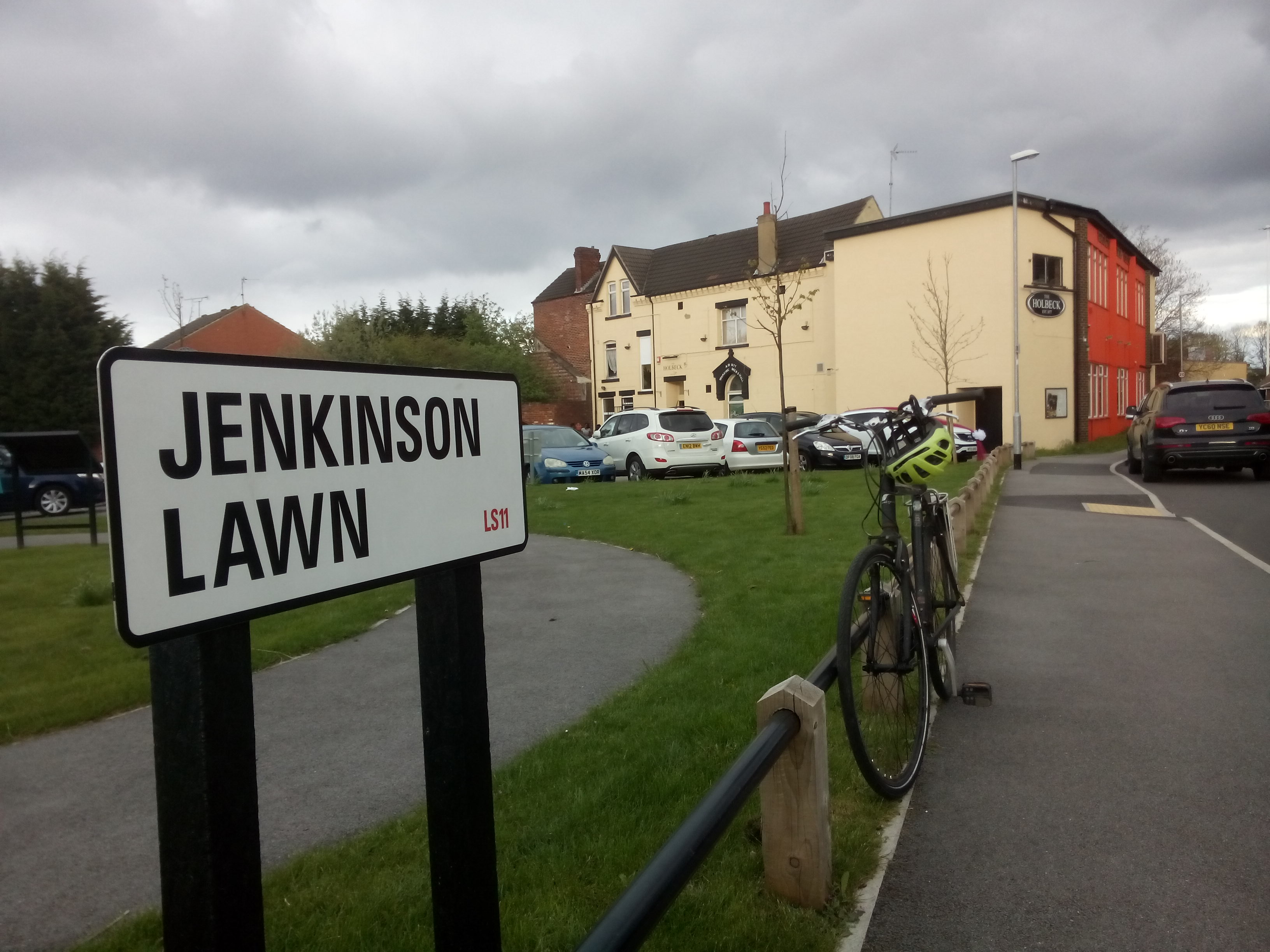 Street name for Jenkinson Lawn, Holbeck, Leeds, named for Charles Jenkinson (1887–1949). In the background is the Holbeck, formerly known as the Holbeck Working Men's Club (founded 1867).